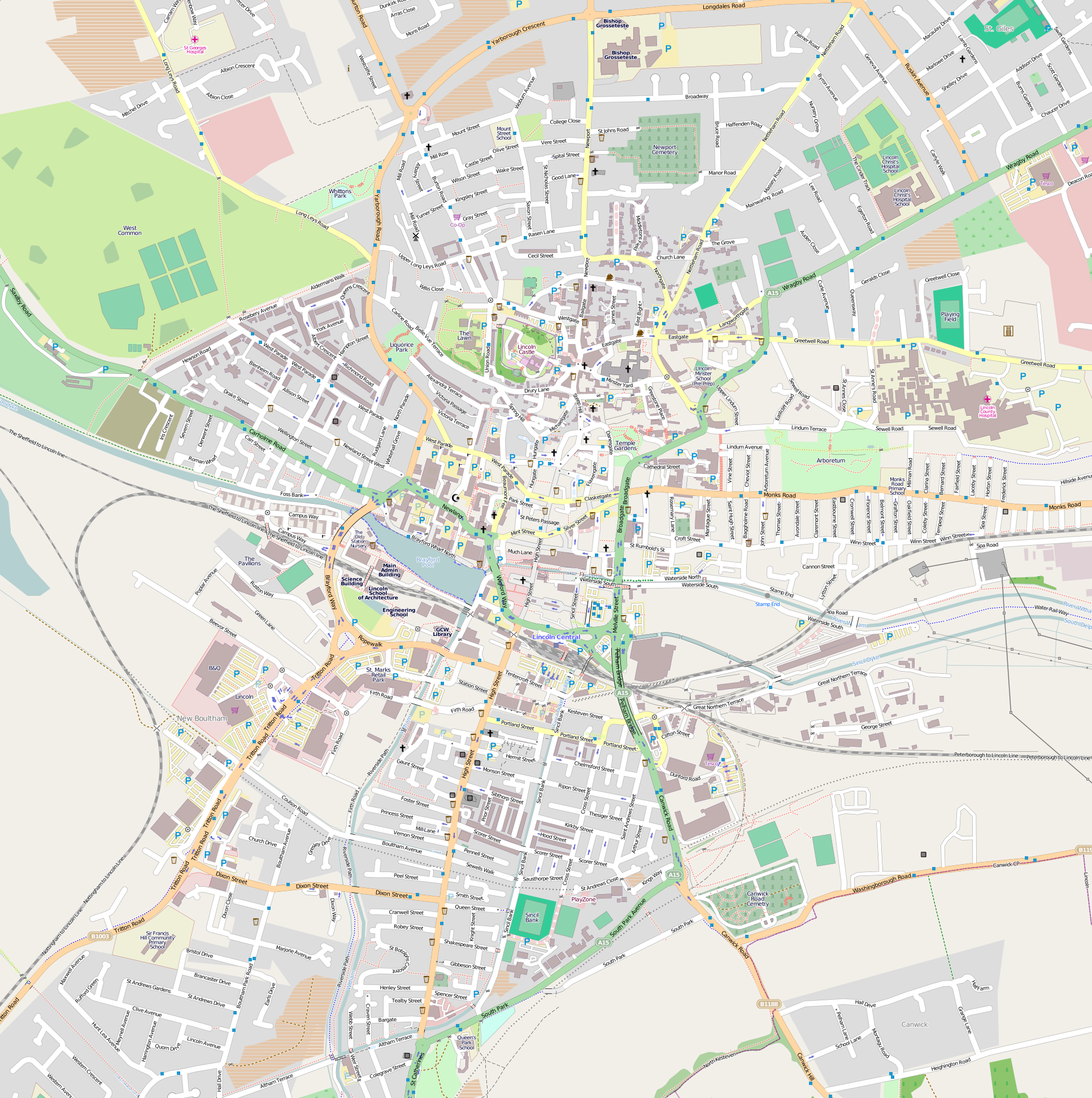 Map of Lincoln Central Geographic limits: N: 53.2452° S: 53.213° W: -0.5669° E: -0.5134°